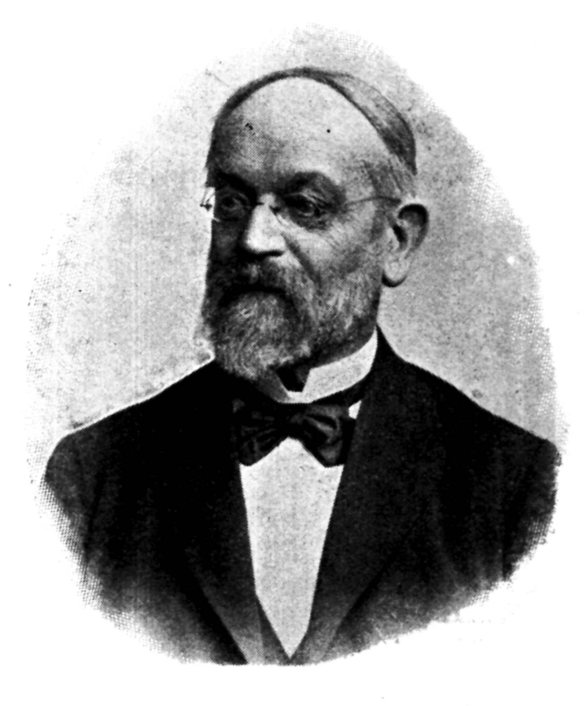 Heinrich Laehr